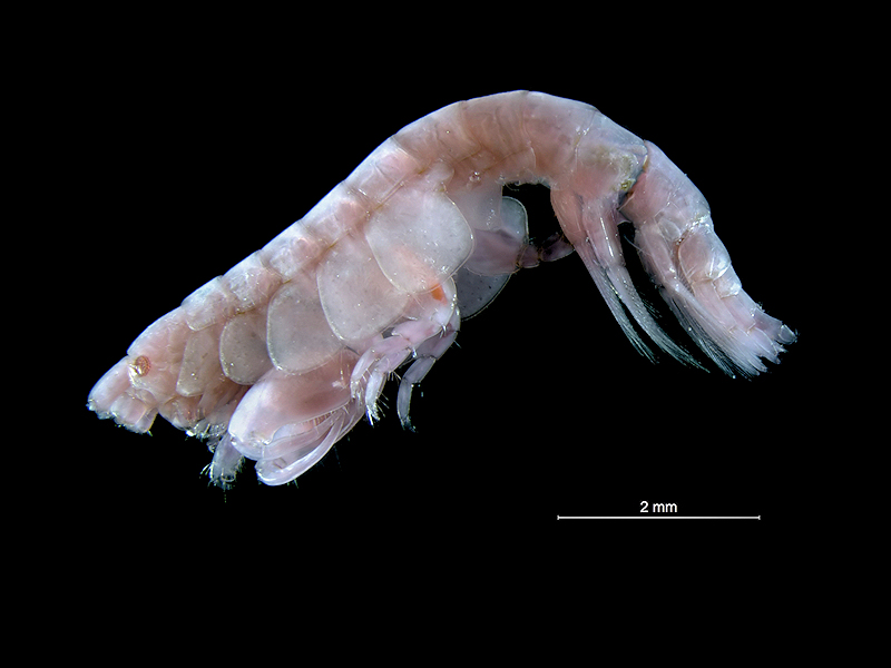 A benthic amphipod from the Belgian part of the North Sea. Length = 8 mm Focus stacking of 13 pictures.